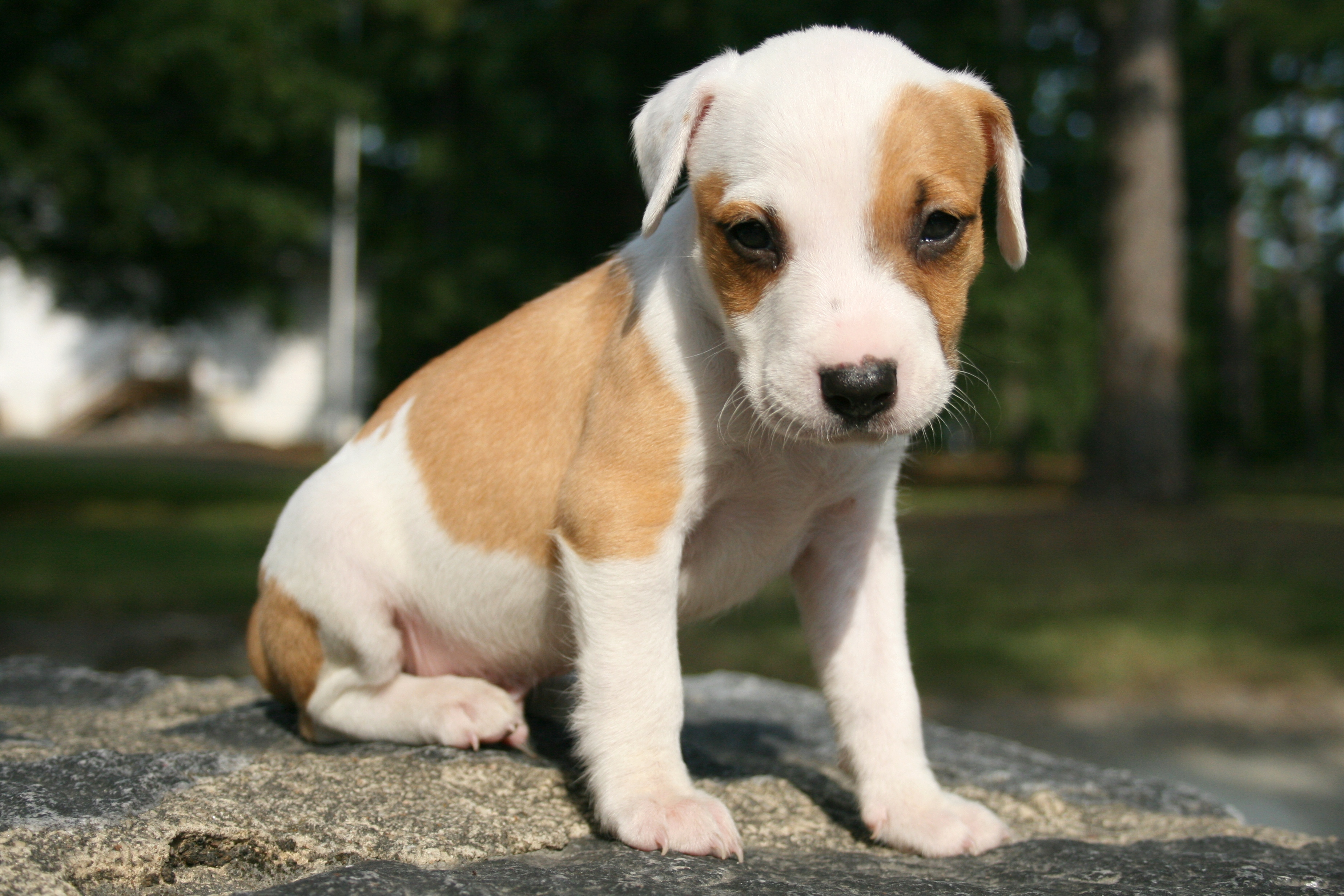 A puppy sitting on the perimeter wall around Duke University East Campus in Durham, North Carolina.